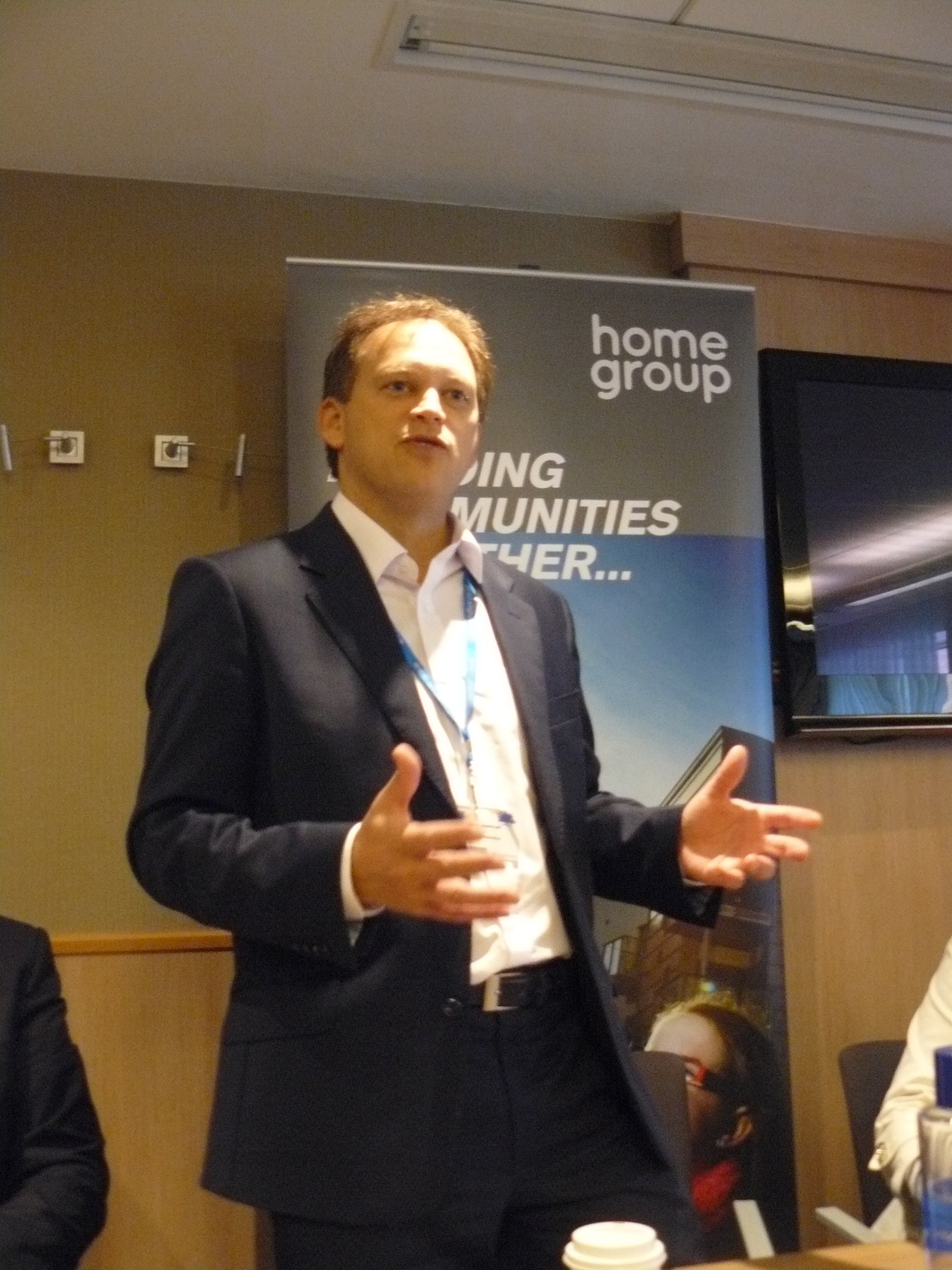 Policy Exchange Conservative Conference Fringe Event: Social housing: Fixing the current mess. 04.10.11